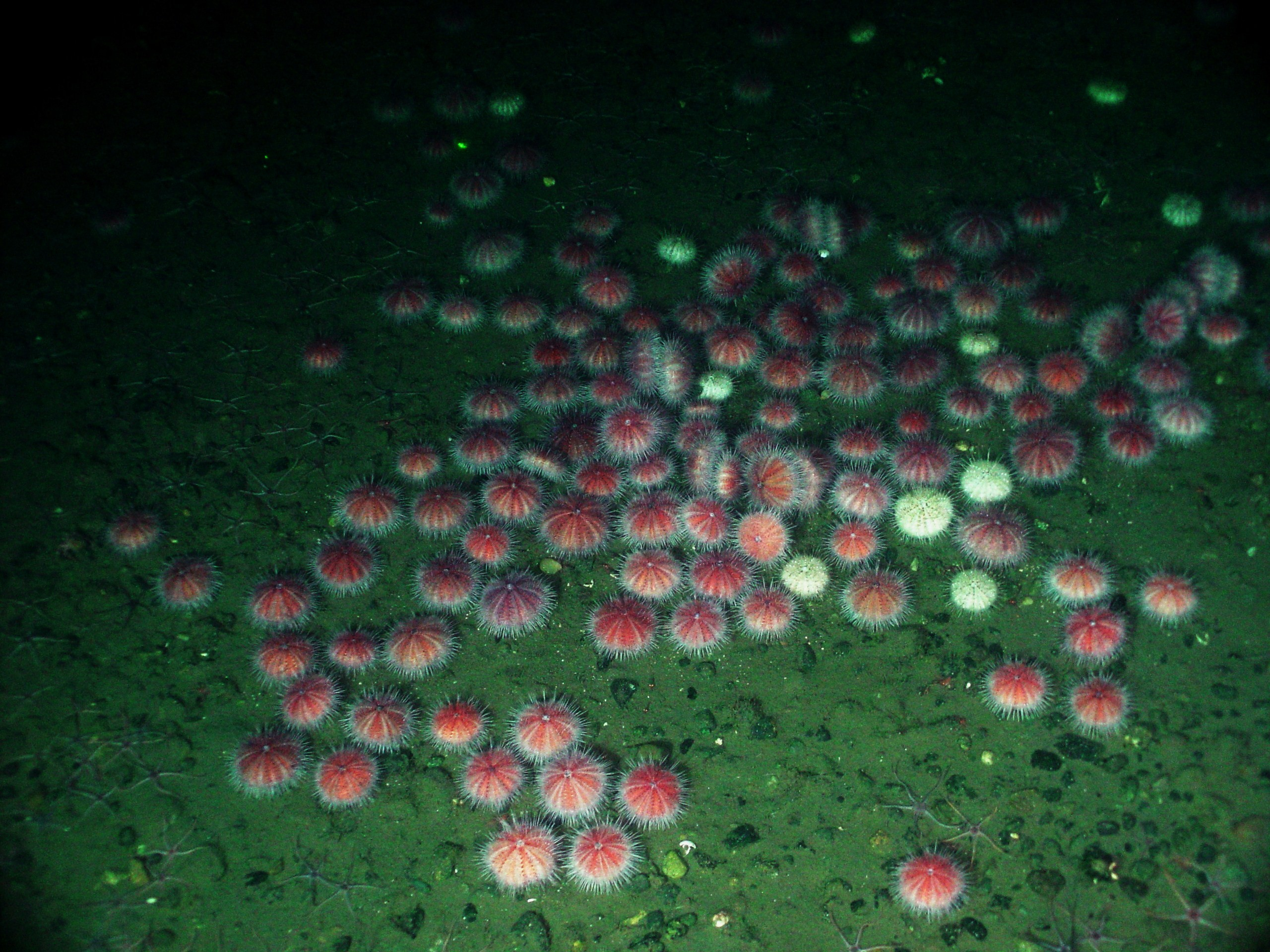 Congregation of the pink urchin (Allocentrotus fragilis) with a few white urchin (Strongylocentrotus pallidus). Washington, Olympic Coast NMS.